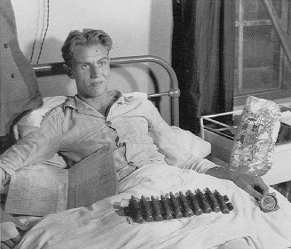 George Beurling in hospital after escaping from a B-24 transport aircraft taking the already injured fighter pilot to Britain. He jumped out just as the plane crashed near Gibralter and then swam 160yds with a heavy cast on his foot. (1943): "Low on gas there was no alternate landing strip so, with poor visibility the pilot forced the bomber down. He couldn't control the plane well enough on descent into Gibralter and missed two thirds of the runway. The aircraft touched down too late and the pilot tried to pull back up. With the engines at full throttle but not generating enough power yet they crashed into the water. Beurling said afterwards that he could tell from the way the plane behaved that it was going to stall so he opened the emergency door and jumped just as the plane hit the water. He managed to swim the 160 yds to shore, despite a heavy cast on his foot. Only Donaldson, Beurling and another passenger survived. Beurling was hospitalized with shock and an infection in his wounded heel"